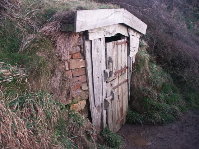 Hawker's Hut on the cliff-side near Morwenstow